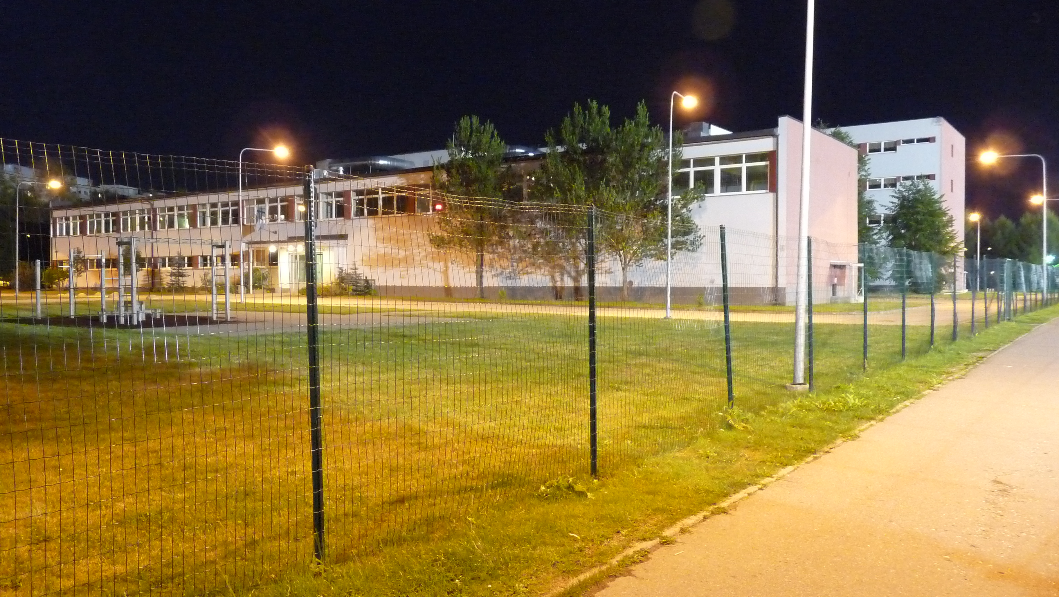 Haabersi Russian Gymnasium in Tallinn, Estonia